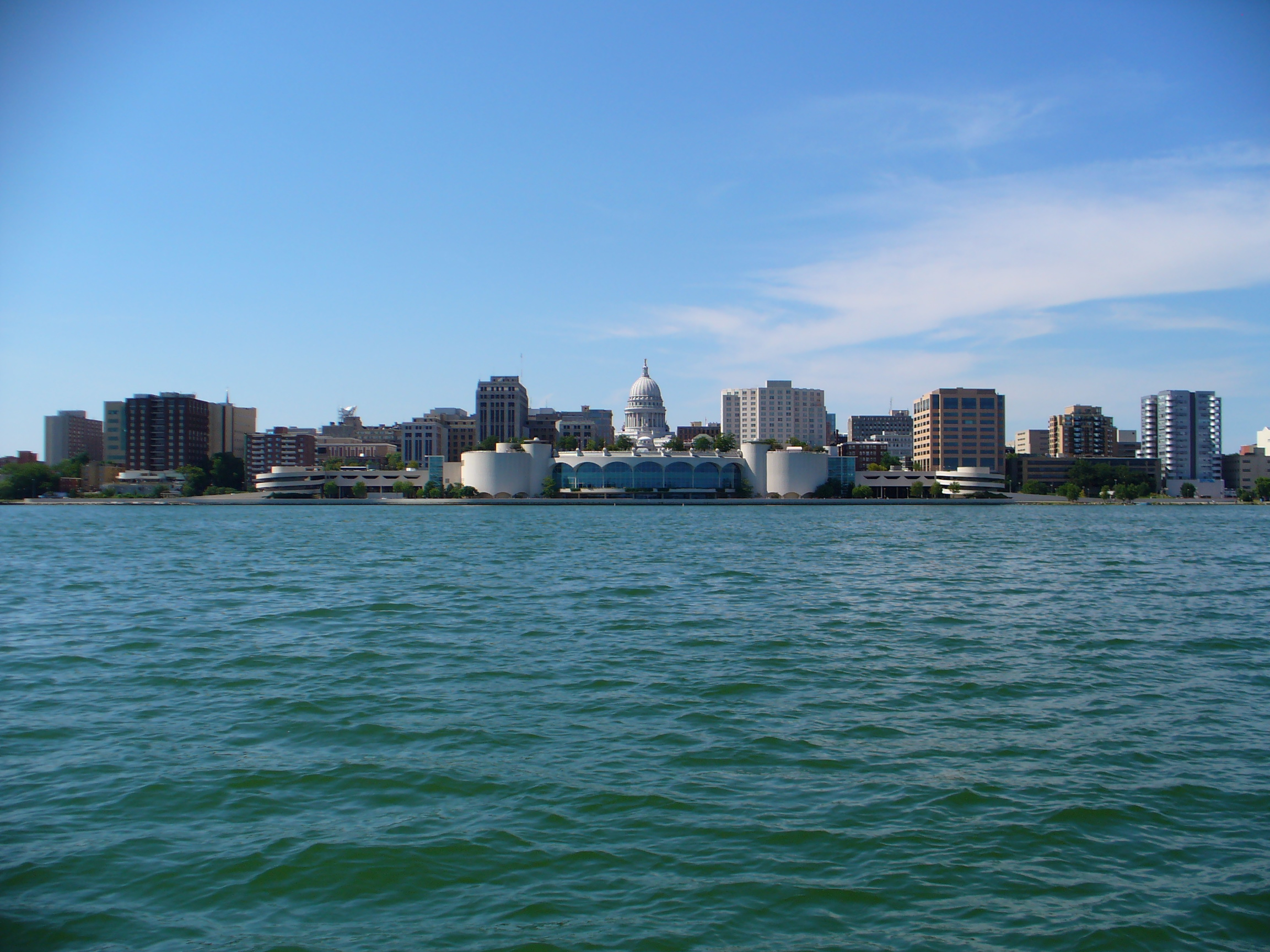 The skyline of Madison, Wisconsin as seen from Lake Monona. Monona Terrace is in the center of the picture with the capital directly behind it.